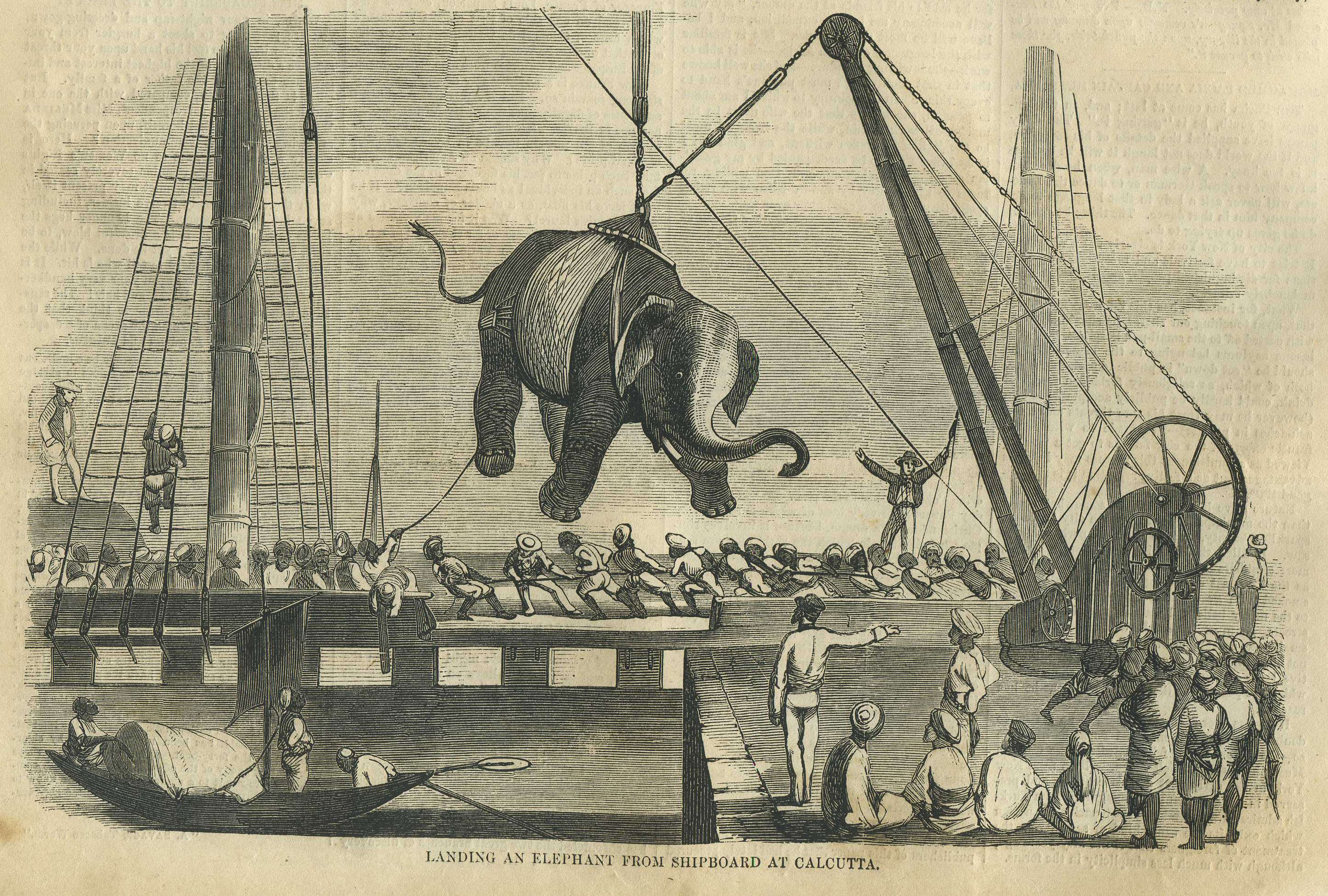 "Landing an elephant from shipboard at Calcutta," from Harpers Weekly, 1858